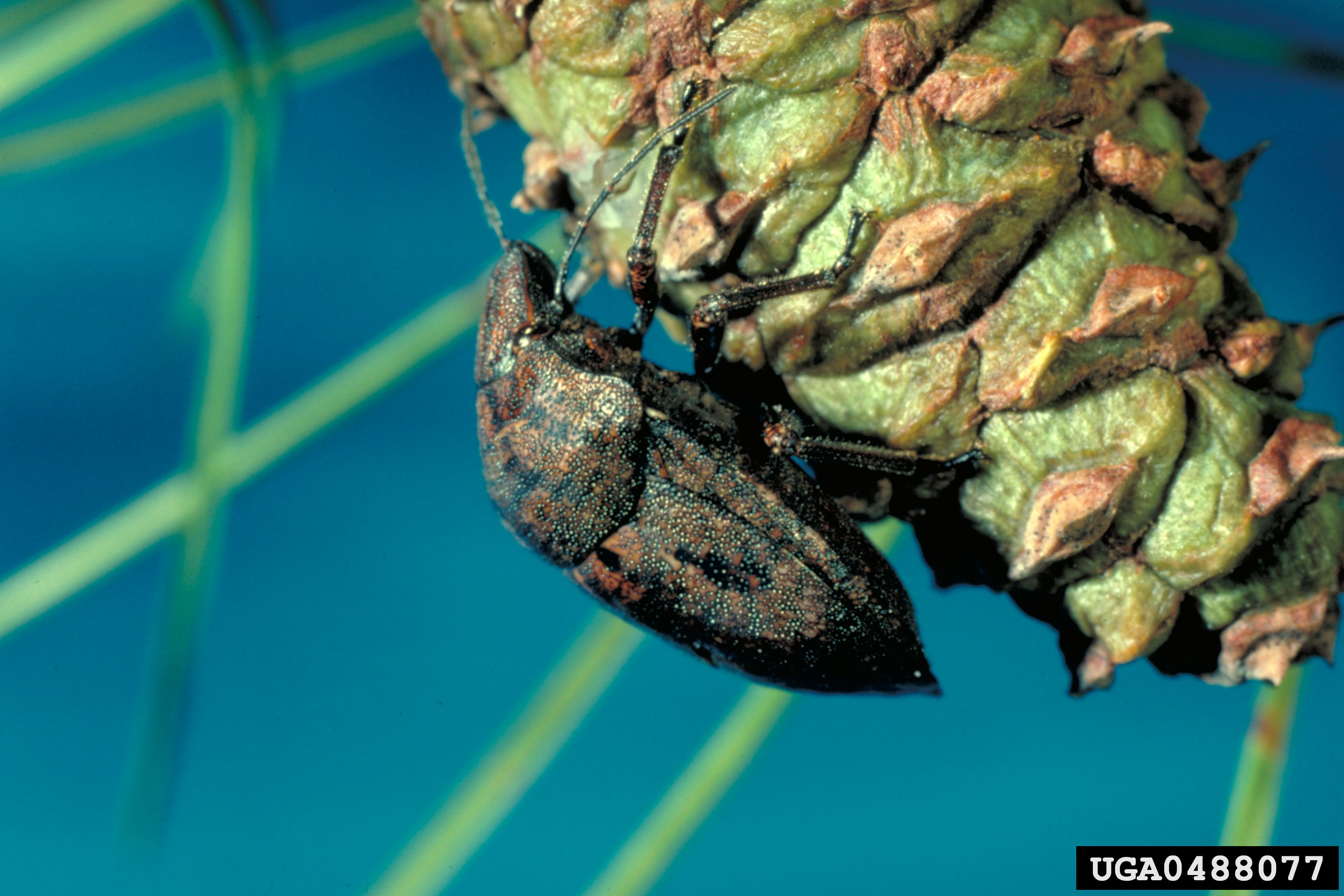 Shieldbacked pine seed bug (Tetyra bipunctata) (adult) ; family Scutelleridae